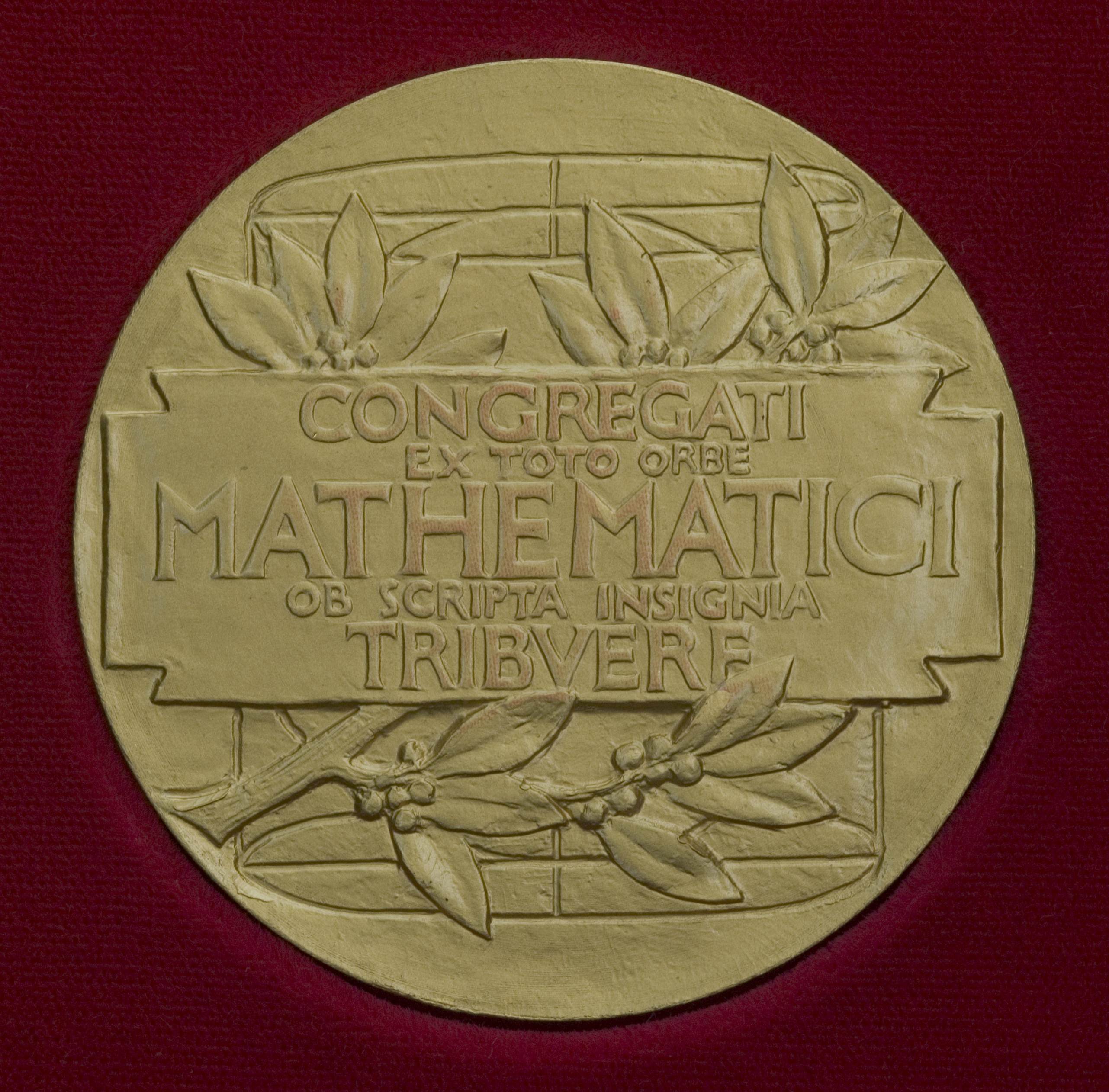 Photo of the reverse of a Fields Medal made by Stefan Zachow for the International Mathematical Union (IMU). The latin prhase states: Congregati ex toto orbe mathematici ob scripta insignia tribuere